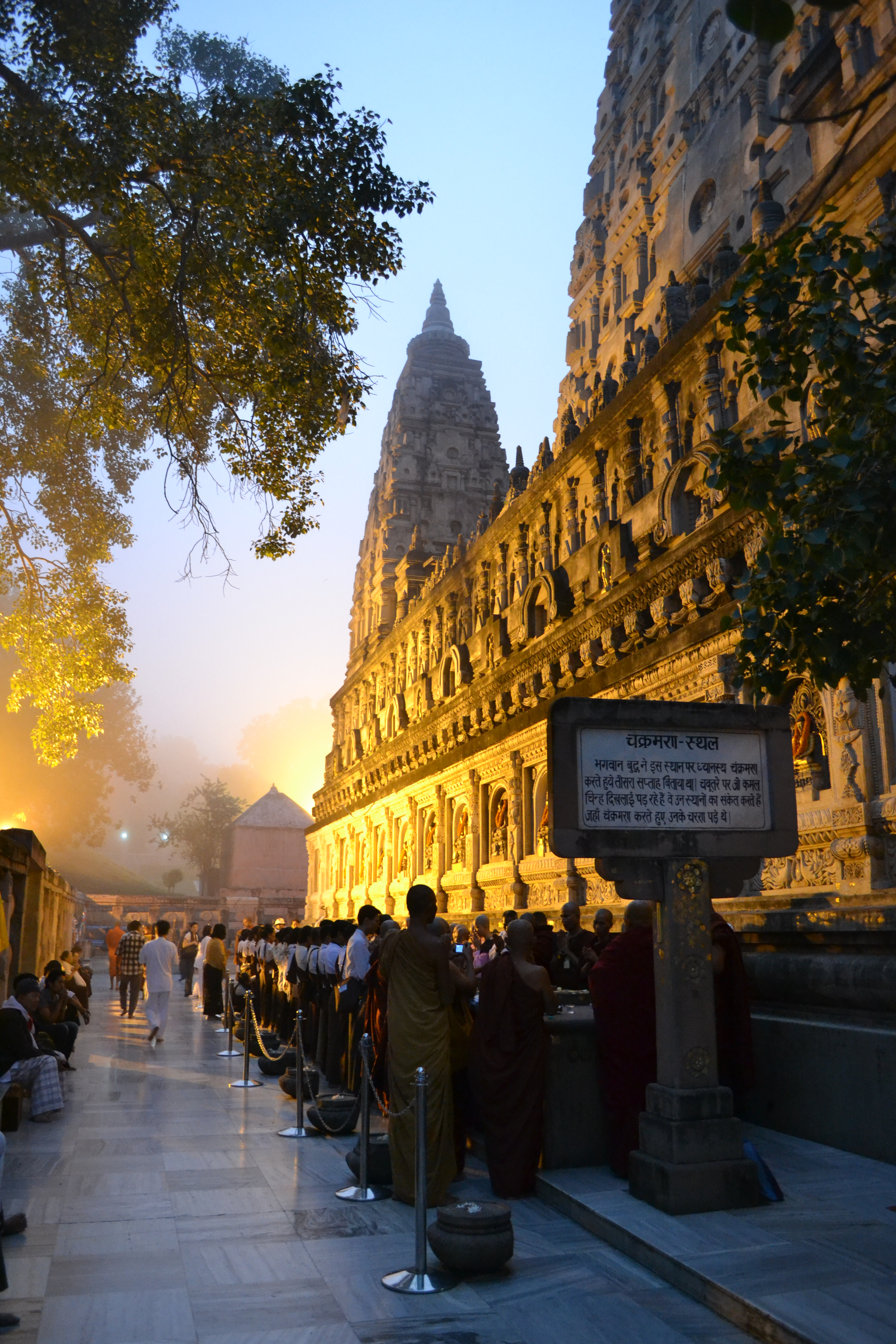 Bodh Gaya, India.